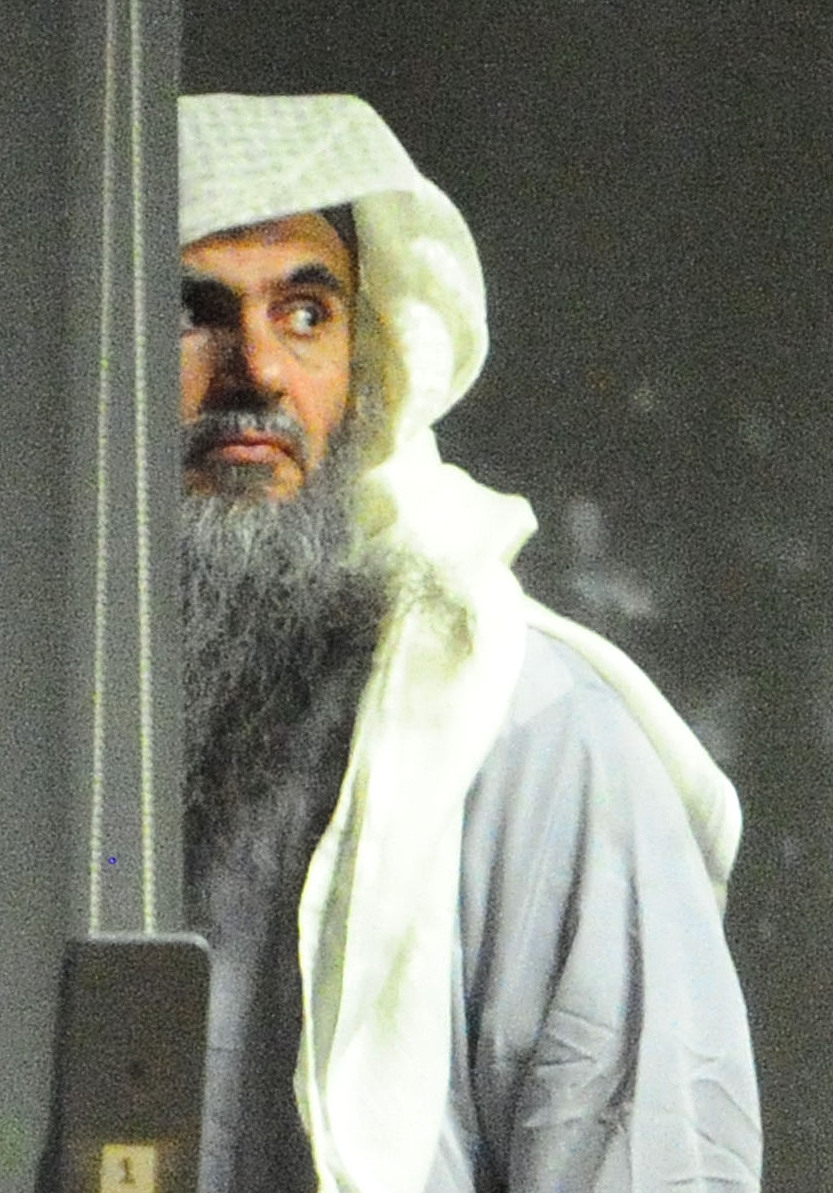 Abu Qatada